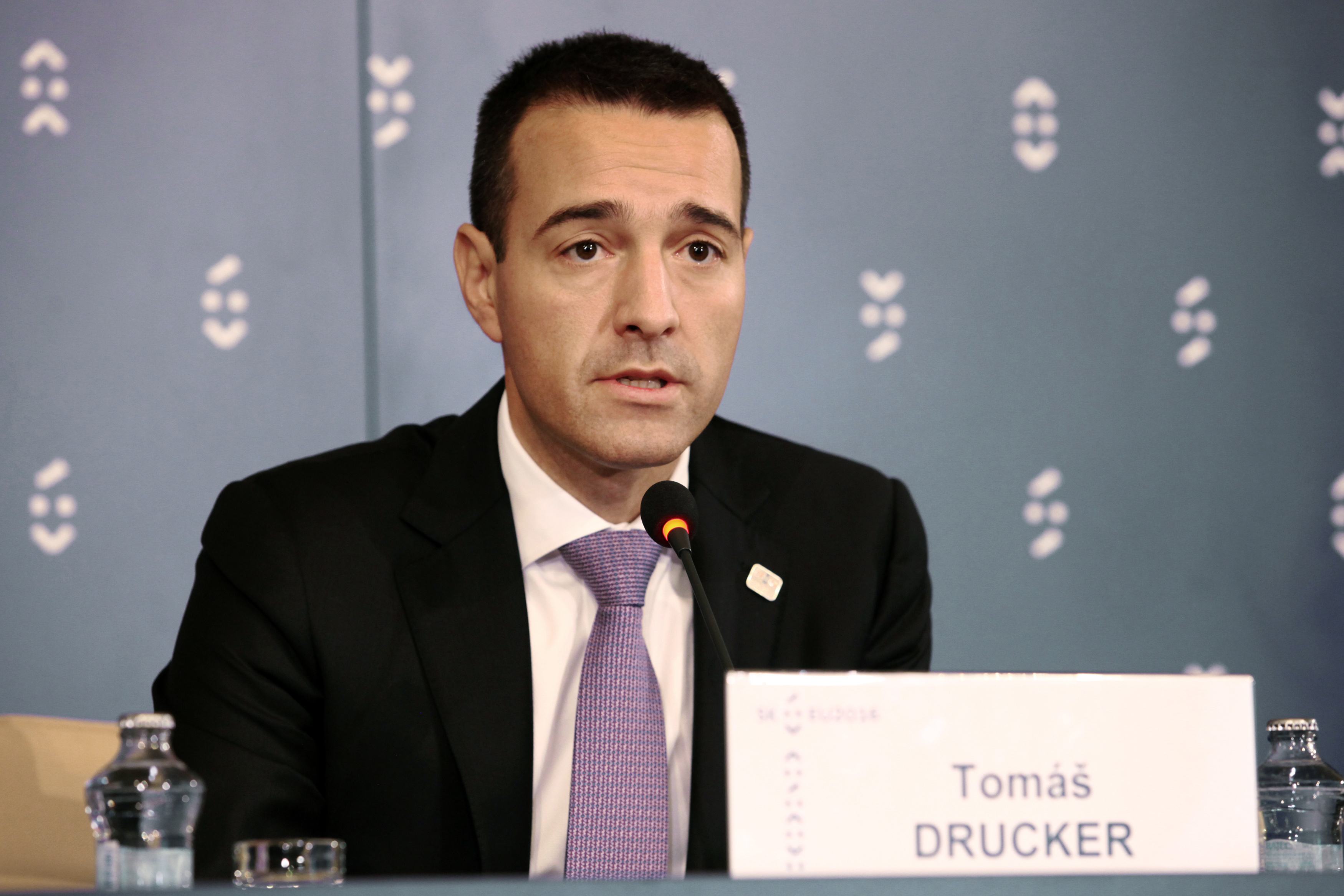 Slovakia, Mr. Tomas Drucker, Minister of Health Informal Meeting of Ministers for Health (Informal EPSCO-Health) Photo:Andrej Klizan